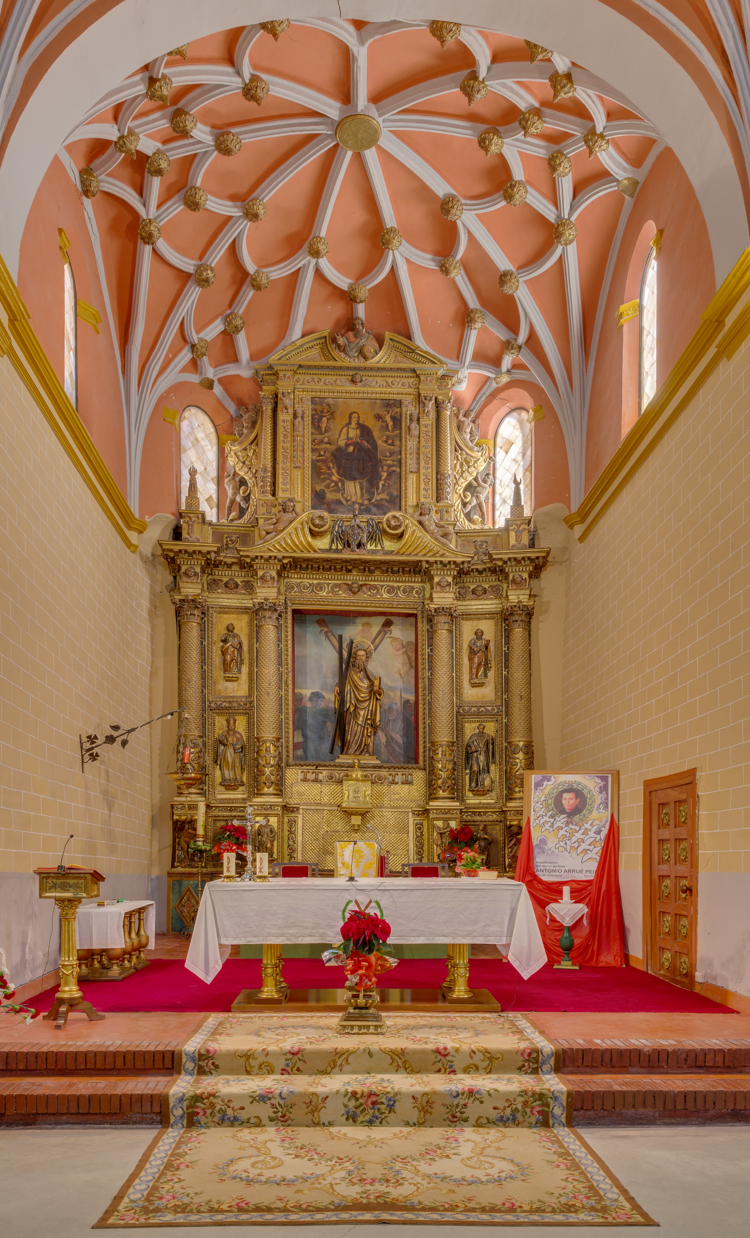 Church of St Andrew, Calatayud, Spain